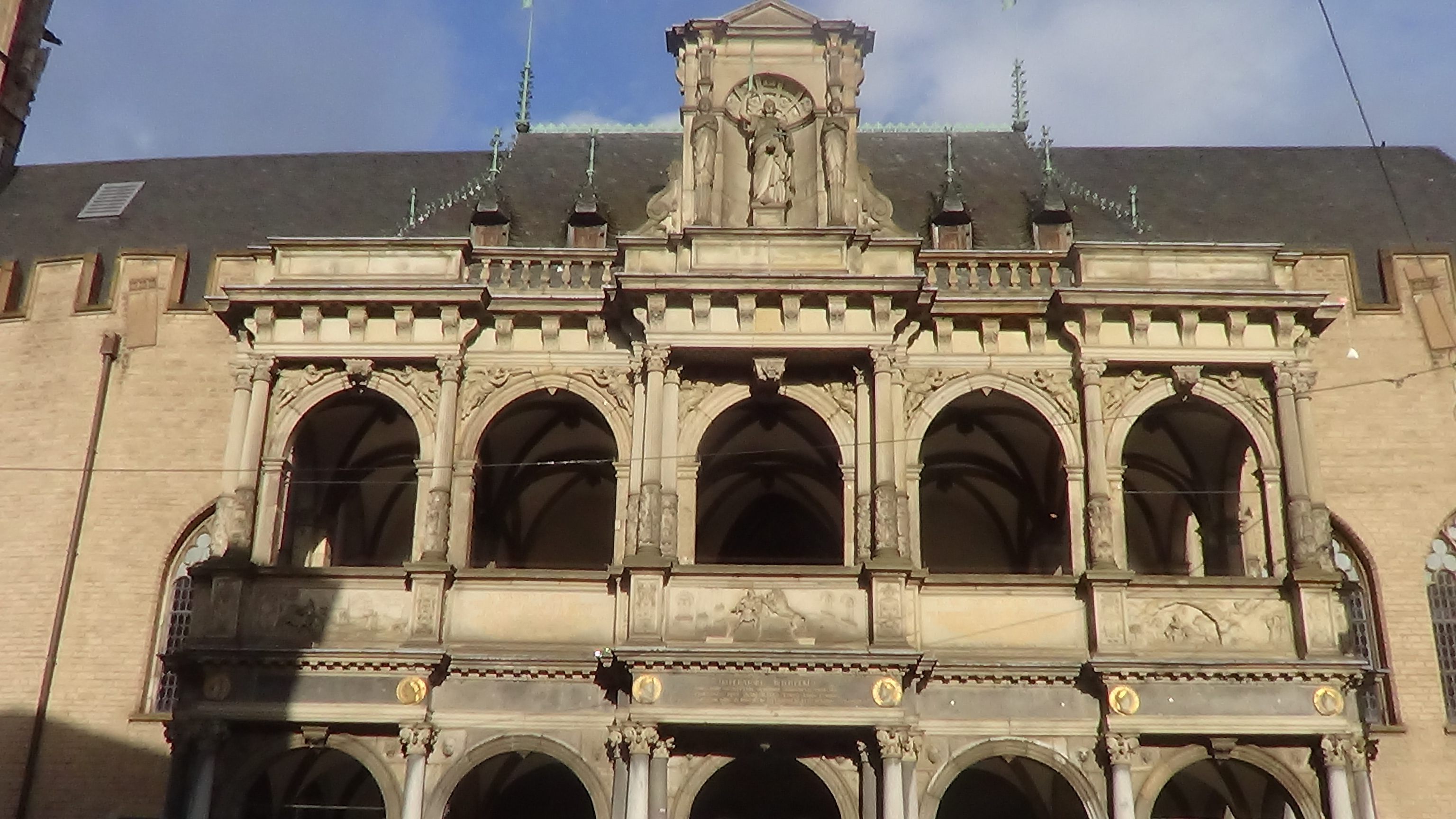 The City Hall in Cologne